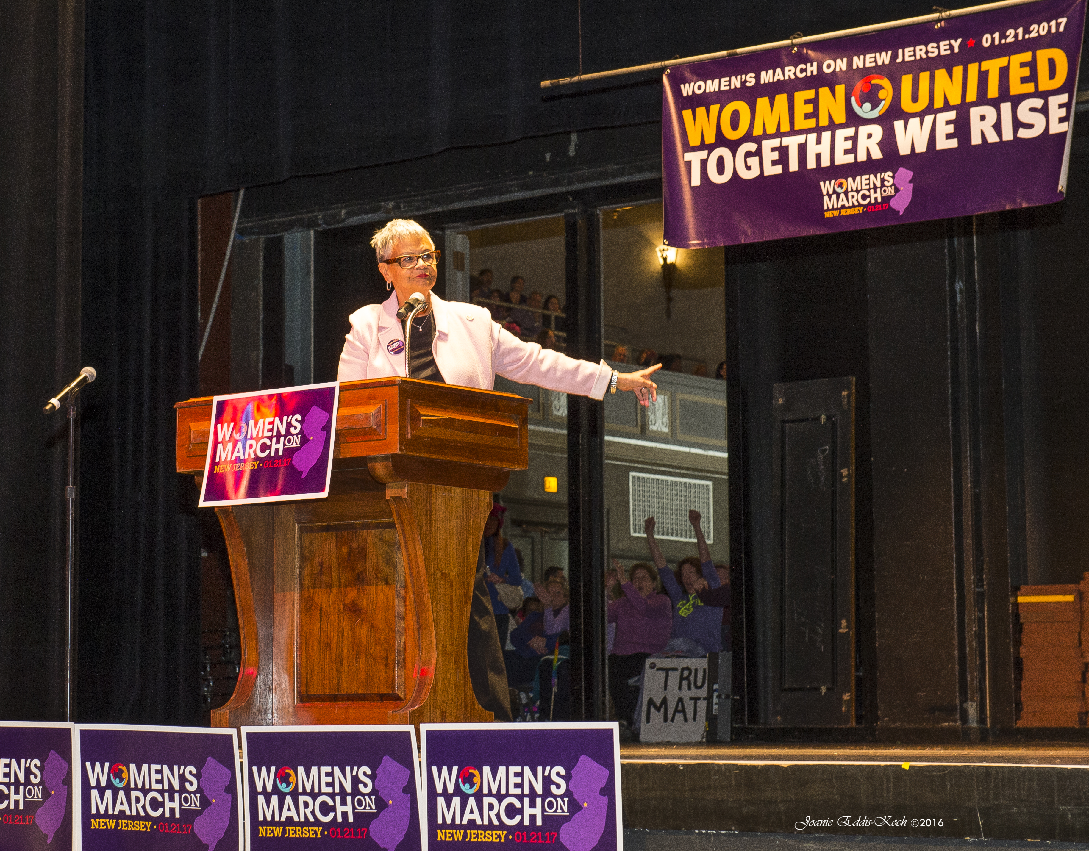 New Jersey State Assemblywoman Elizabeth Muoio speaks to the crowd in Trenton attending the Women's March on New Jersey 1 21 17